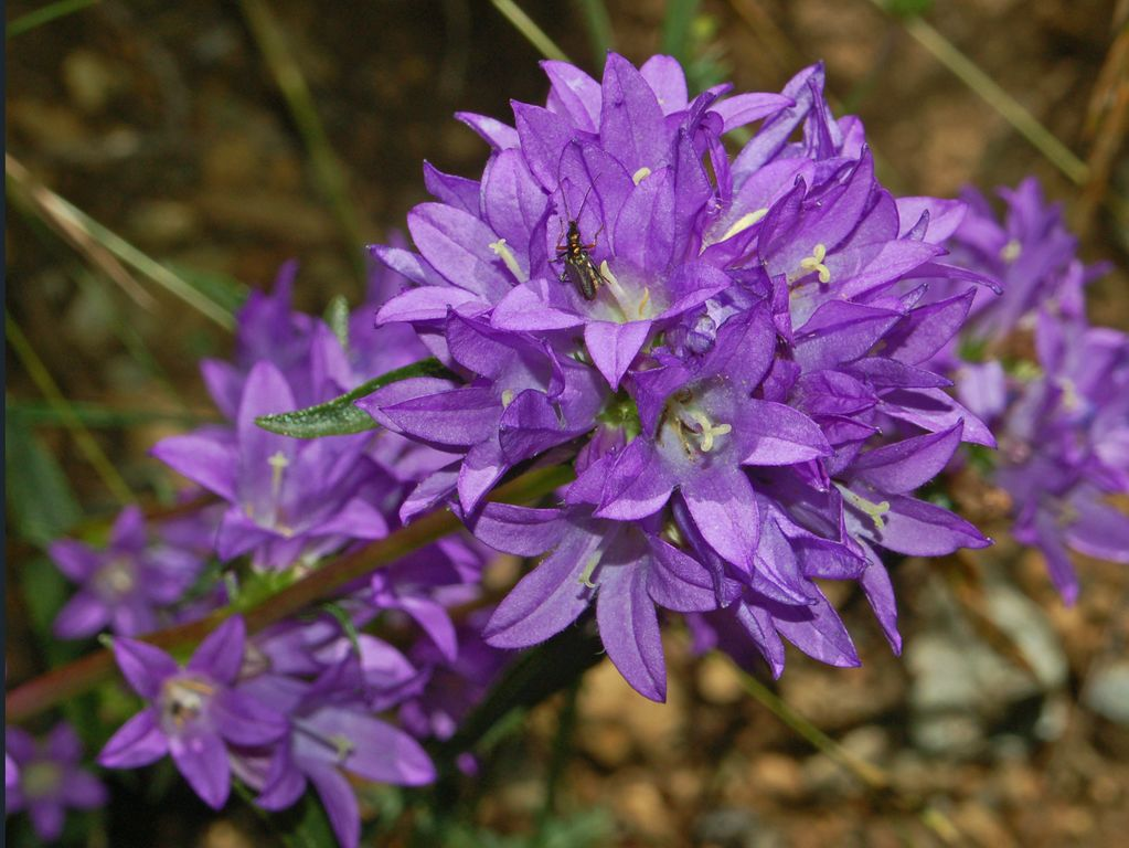 Campanula glomerata - Piani di Praglia, Genova, Italy